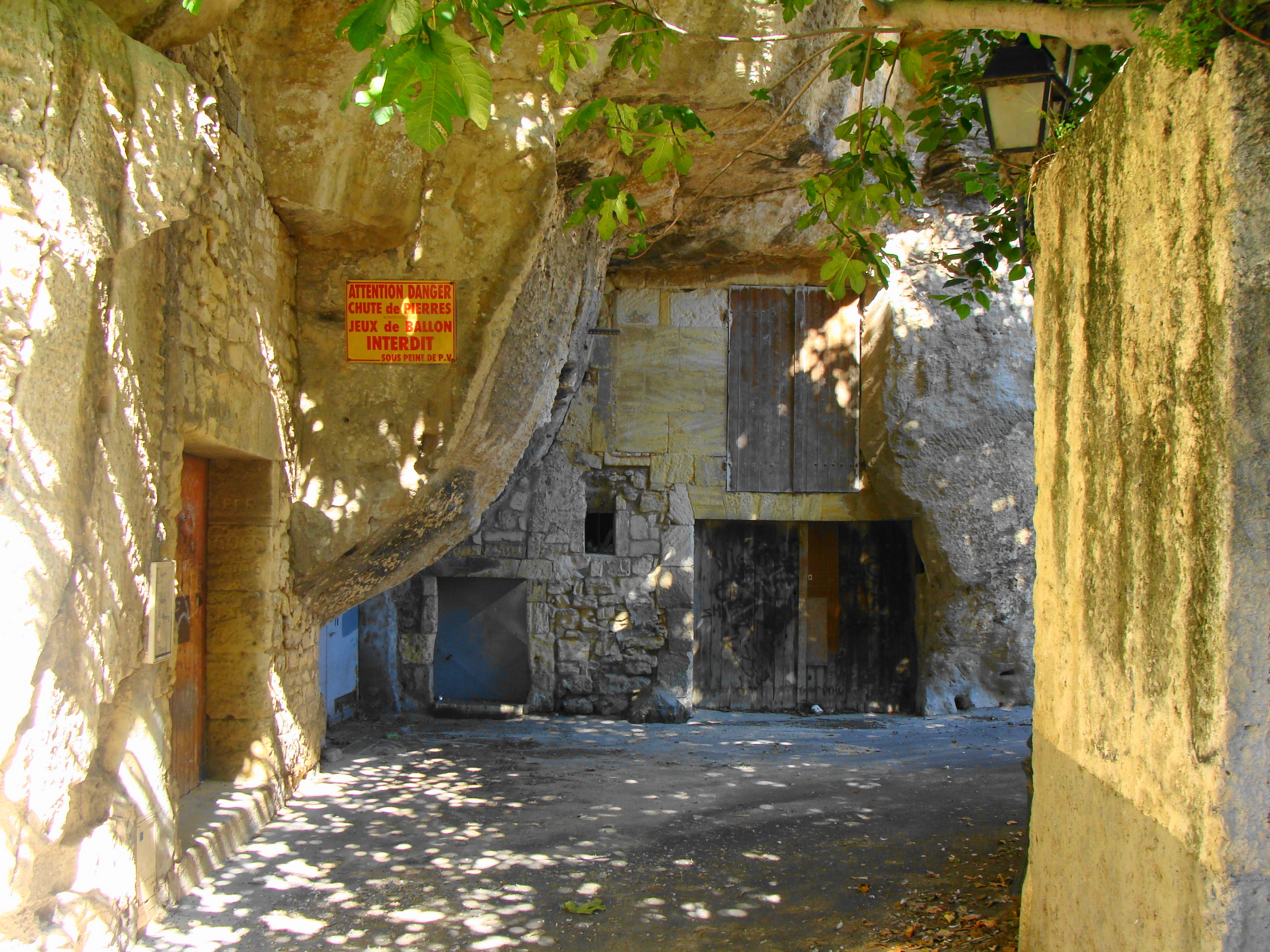 Fontvieille